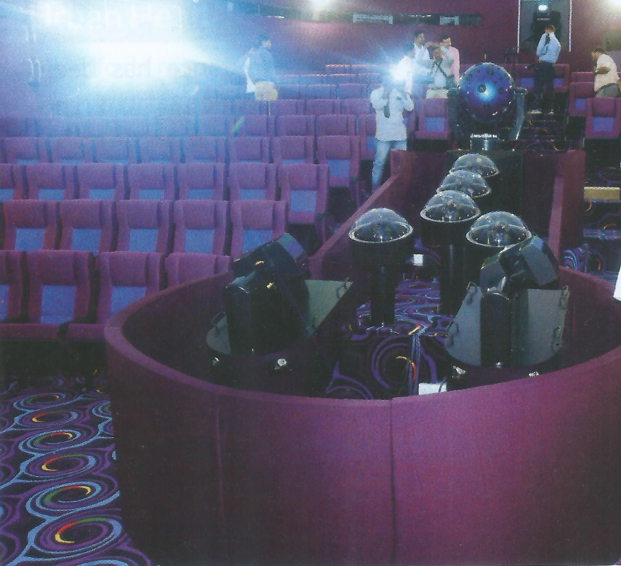 3D 8K resolution Projector at the Swami Vivekananda Planetarium in Mangalore